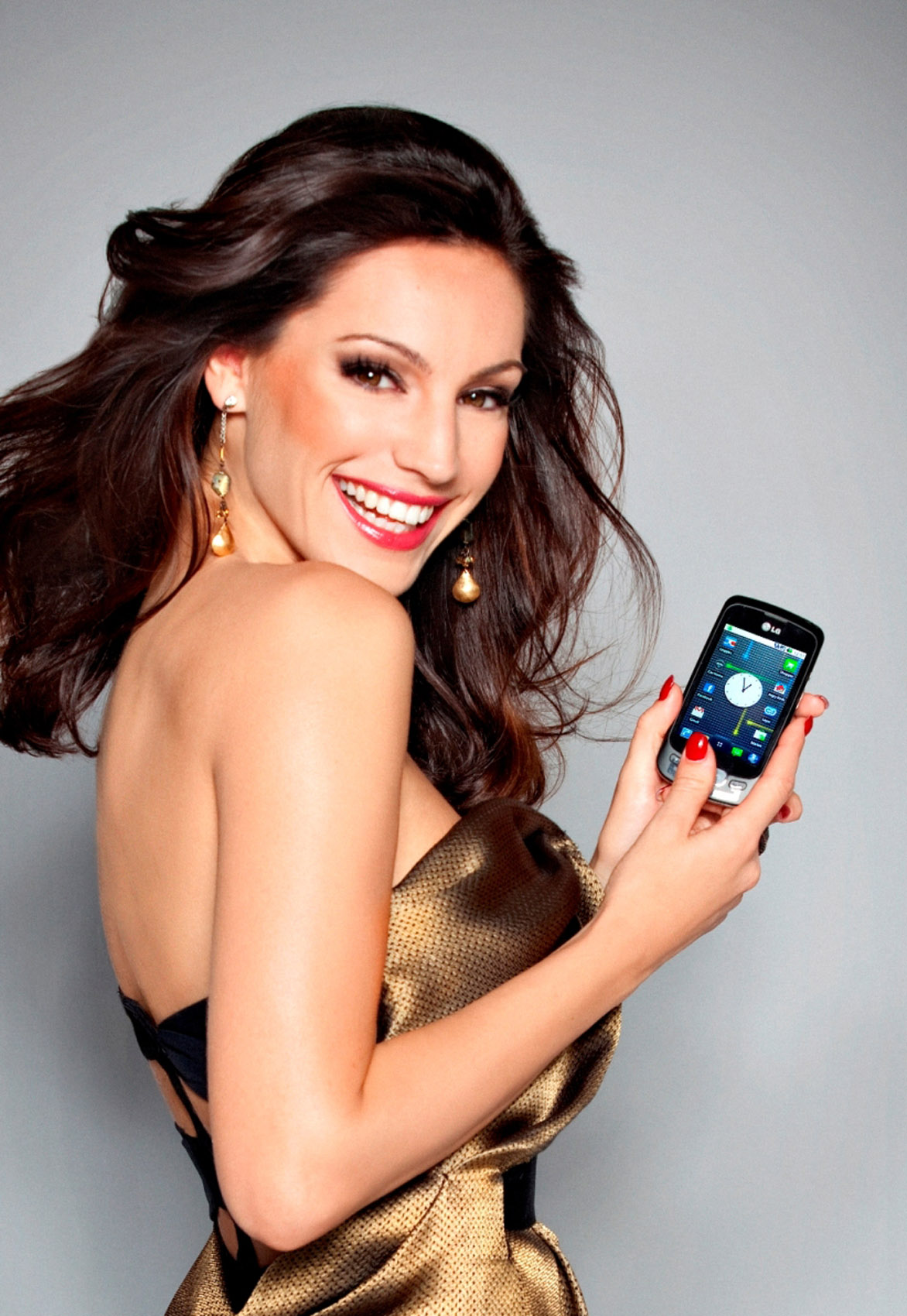 Kelly Brook as LG Optimus One Model